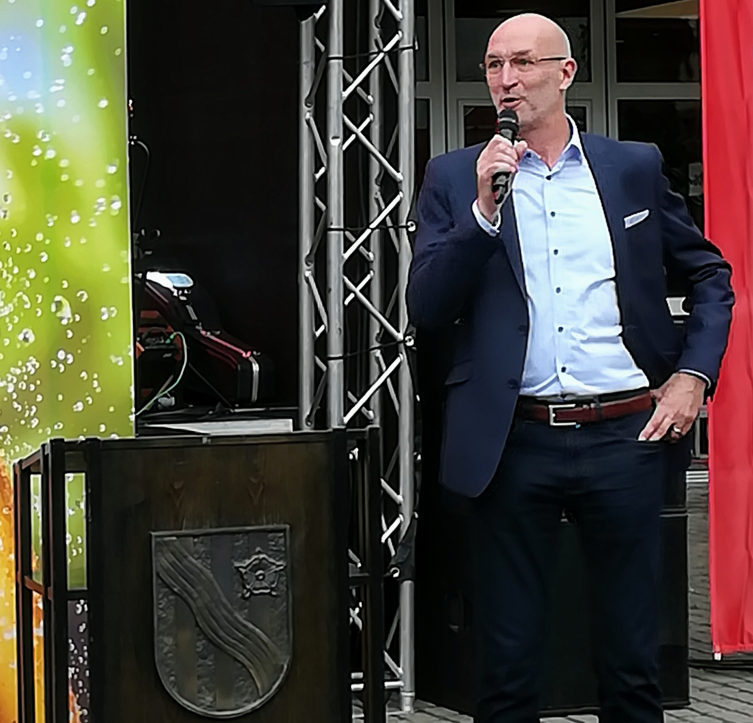 Stefan Hundt, mayor, Lennestadt, Germany check usage